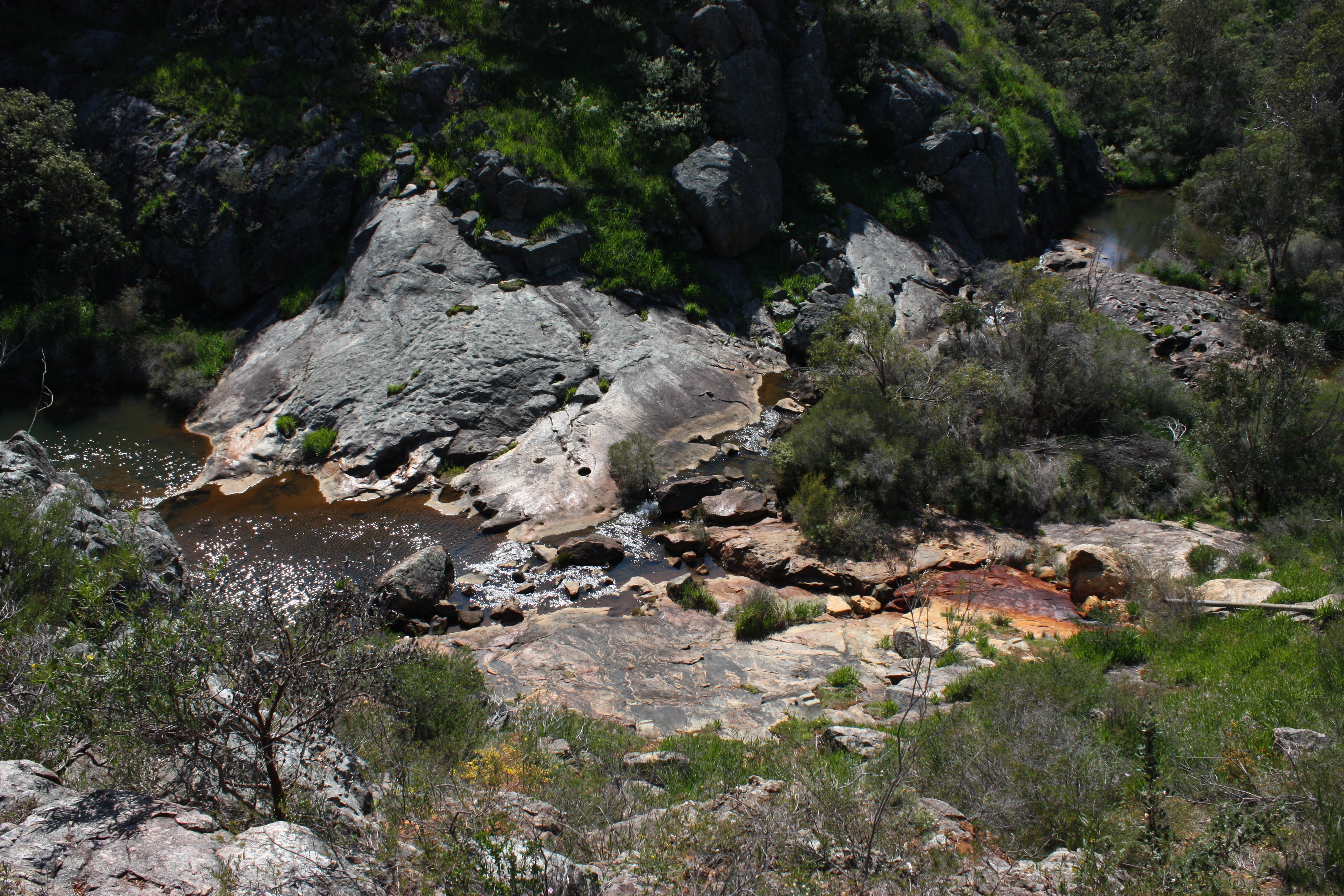 Serpentine River, Western Australia, just above Serpentine Falls, in Serpentine National Park